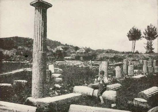 Buried cities (1922) Author: Hall, Jennie, 1875-1921 Subject: Mycenae; Pompeii (Extinct city); Olympia Publisher: New York : The Macmillan Company Possible copyright status: NOT_IN_COPYRIGHT Language: English Call number: 408227 Digitizing sponsor: MSN Book contributor: New York Public Library Collection: americana